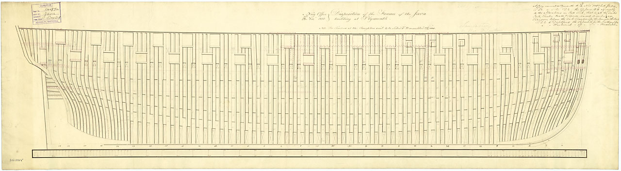 Java (1815); Southampton (1820); Winchester (1828); Lancaster (1823); Portland (1822) Scale: 1:48. Plan showing the framing profile (disposition) for Java (1815), a 52-gun Fourth Rate, large Frigate, building at Plymouth Dockyard. The plan was later altered in 1816 for Southampton (1820), Winchester (1828), Lancaster (1823), and Portland (1822), all 52-gun Fourth Rate, large Frigates. Initialled by Joseph Tucker [Surveyor of the Navy, 1813-1831] and Robert Seppings [Surveyor of the Navy, 1813-1832]. JAVA 1815